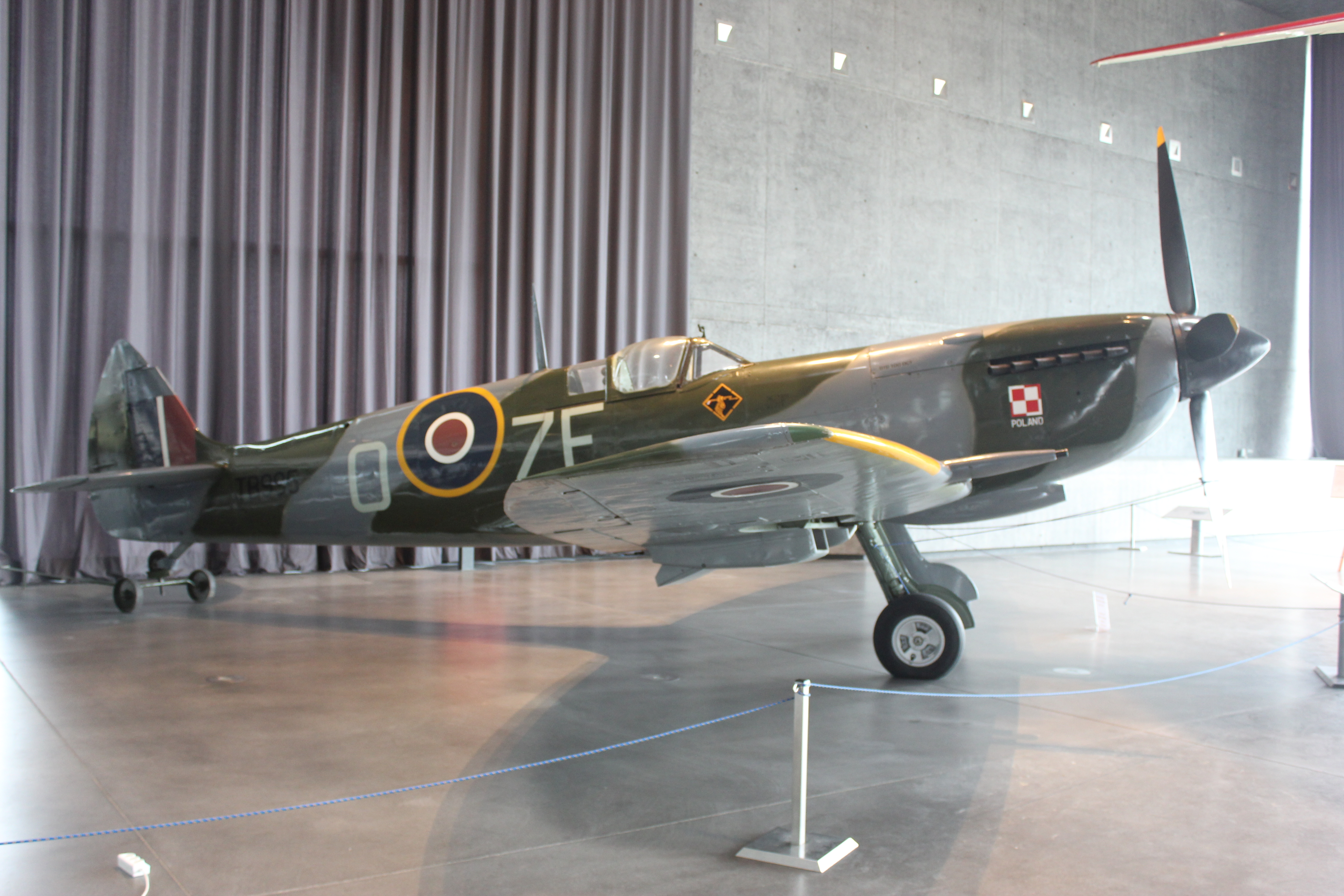 Kraków - Polish Aviation Museum - Supermarine Spitfire LF Mk.XVIE